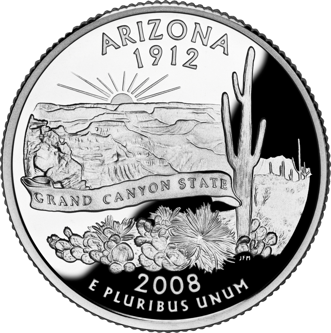 Removed background, cropped, and converted to PNG with Microsoft Photo Editor. This image depicts a unit of currency issued by the United States of America. If Fraudulent use of this image is punishable under applicable counterfeiting laws. As listed by the United States Secret Service at money illustrations, the Counterfeit Detection Act of 1992, Public Law 102-550, in Section 411 of Title 31 of the Code of Federal Regulations (31 CFR 411), permits color illustrations of U.S. currency provided:1. The illustration is of a size less than three-fourths or more than one and one-half, in linear dimension, of each part of the item illustrated;2. The illustration is one-sided; and3. All negatives, plates, positives, digitized storage medium, graphic files, magnetic medium, optical storage devices, and any other thing used in the making of the illustration that contain an image of the illustration or any part thereof are destroyed and/or deleted or erased after their final use. Certain coins contain copyrights licensed to the U.S. Mint and owned by third parties or assigned to and owned by the U.S. Mint [1]. For the United States Mint circulating coin design use policy, see [2]; for the policy on the 50 State Quarters, see [3]. Also: COM:ART #Photograph of an old coin found on the Internet